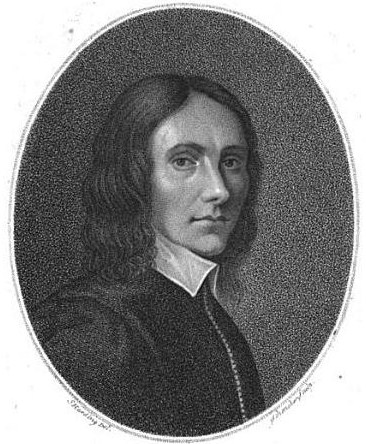 Portrait of John Oldham (1653-83), English poet).